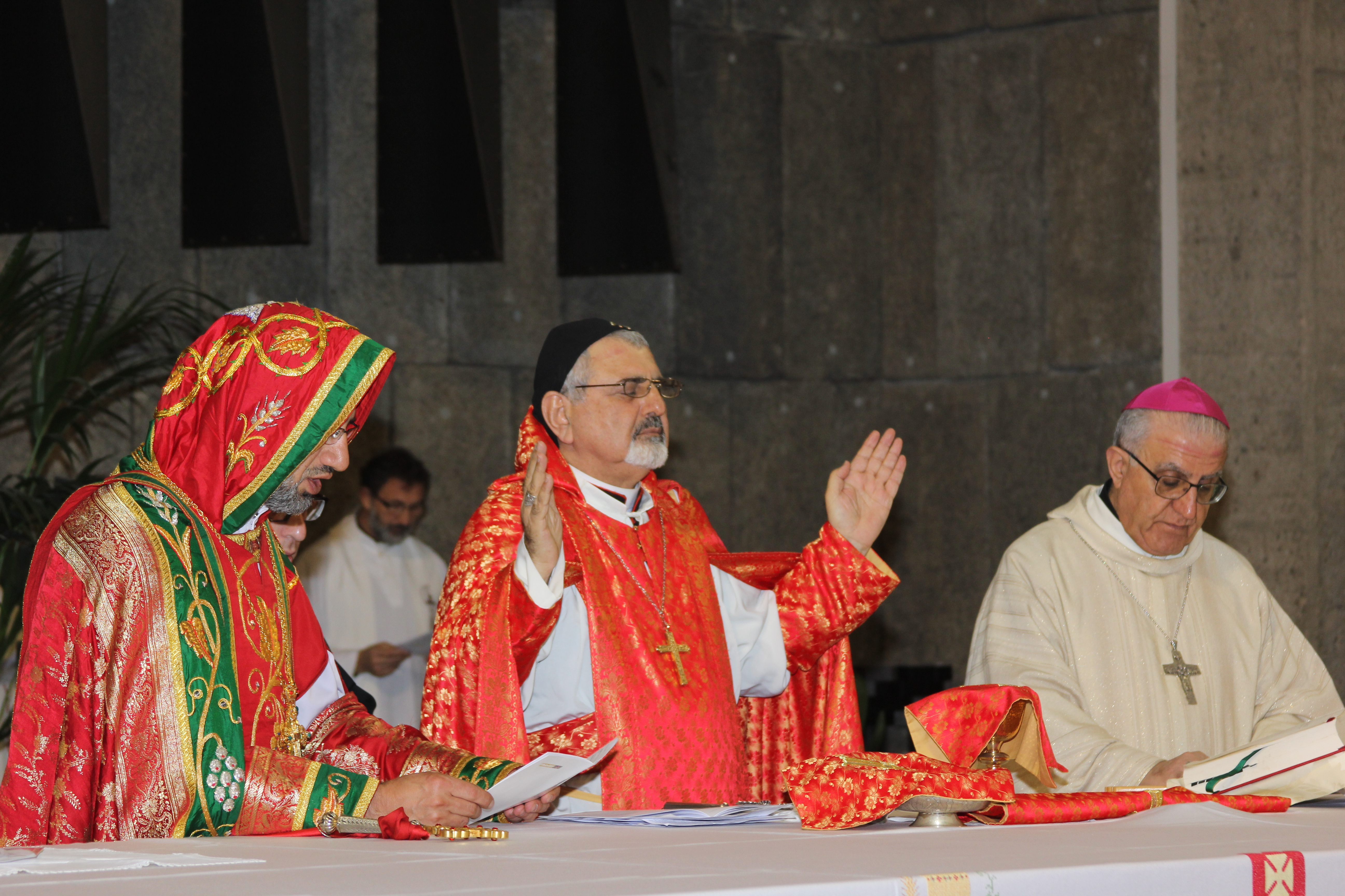 Divine liturgy celebrated by Syriac Catholic Patriarch Ignatius Joseph III Yonan (center), the Syriac Orthodox Bishop Nicholas Matti Abdulahad and the Chaldean Catholic Archbishop Yousif Thomas Mirkis.